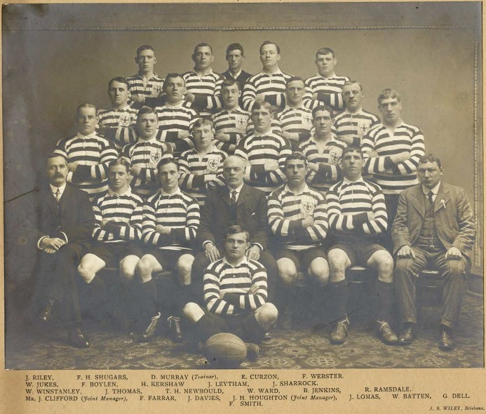 Team photo of the British touring rugby league team of 1910.